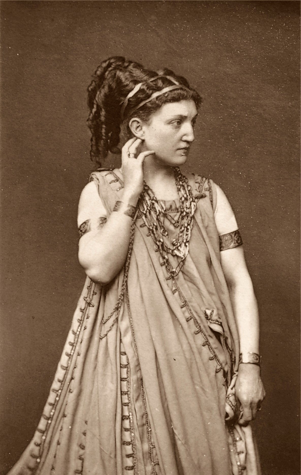 Kate Josephine Bateman (1842-1917) as Medea in 'Medea in Corinth'